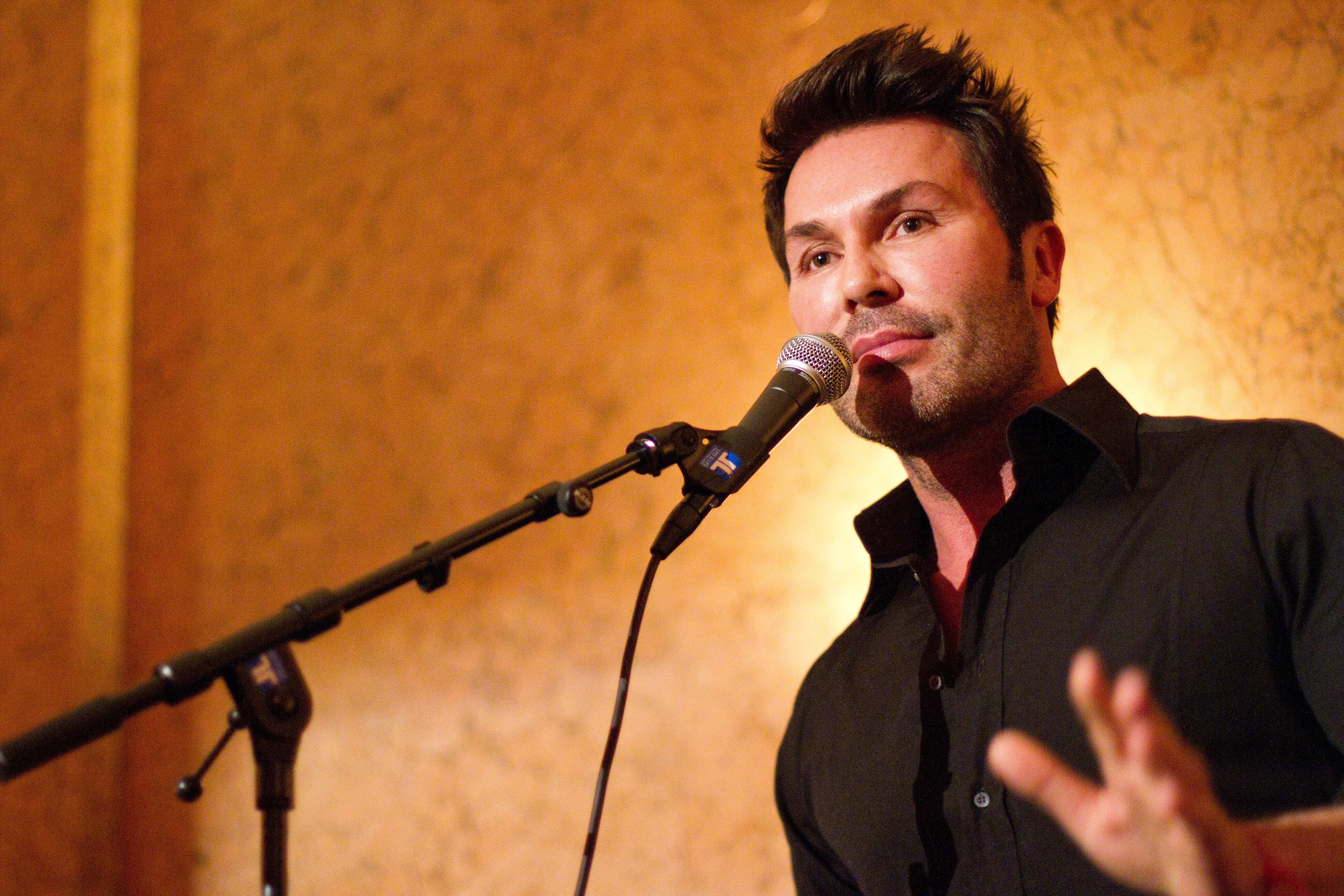 Jan Thomas Mørch Husby during the Girl Dinner in 2011 arranged by Start NHH.